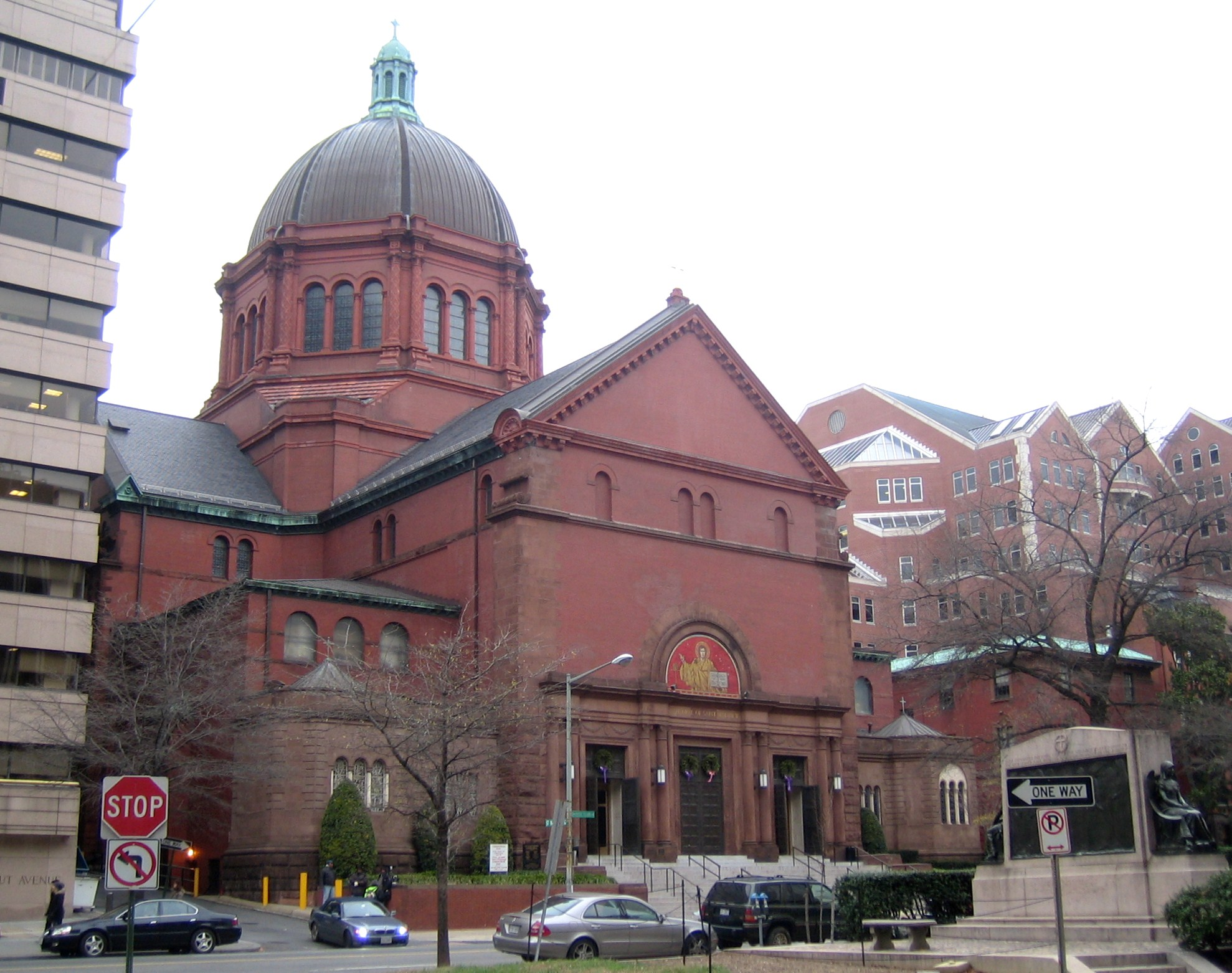 Cathedral of St. Matthew the Apostle in Washington, D.C., USA